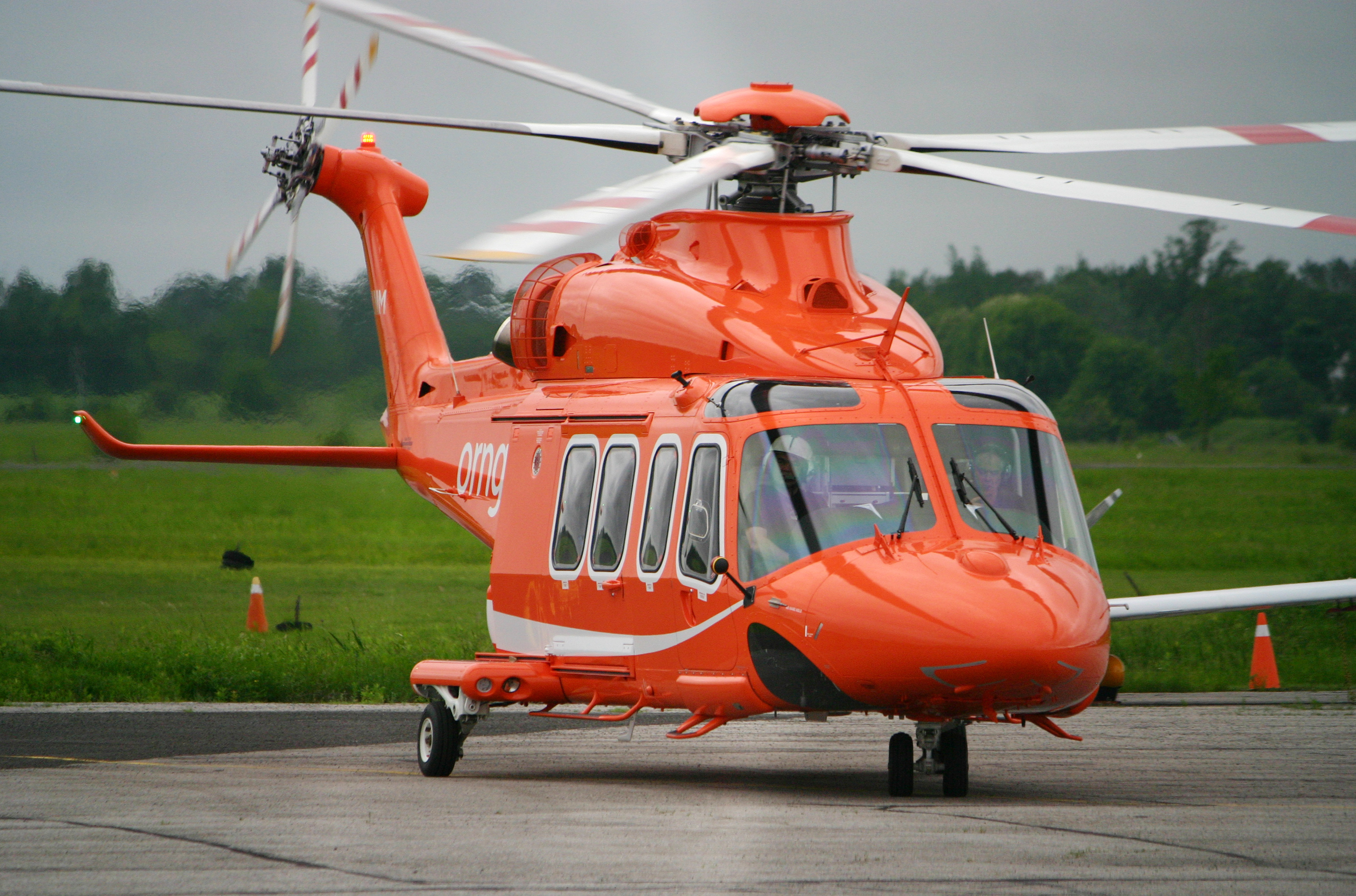 An air ambulance, part of the new fleet of 10 AgustaWestland AW139's being rolled out across the province, practices touch and goes on the runway of the Lindsay airport on Thursday, June 9, 2011 beyond a parked older version of the helicopter, the Sikorsky S-76. The operators included "pilot number one" on the new craft, who was working towards filling his required training hours, said Lindsay Airport manager Derrick Nauss. The first three new Ornge choppers, considered a significant upgrade from the aging Sikorsky S-76, were first unveiled at Toronto's island airport last September. They will cost $130 million.